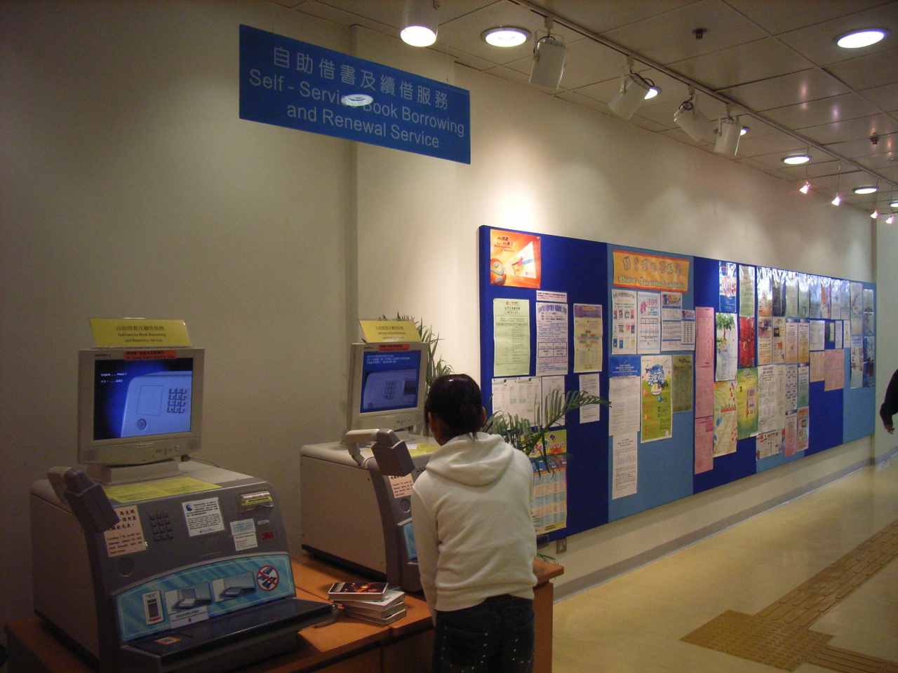 屯門公共圖書館, Tuen Mun Public Library, 屯門大會堂, Tuen Mun Town Hall, 屯門文娛廣場, (Tuen Mun Cultural Square), 屯門, Tuen Mun, New Territories, Hong Kong. (Photo created by User:TUmuMATo)。